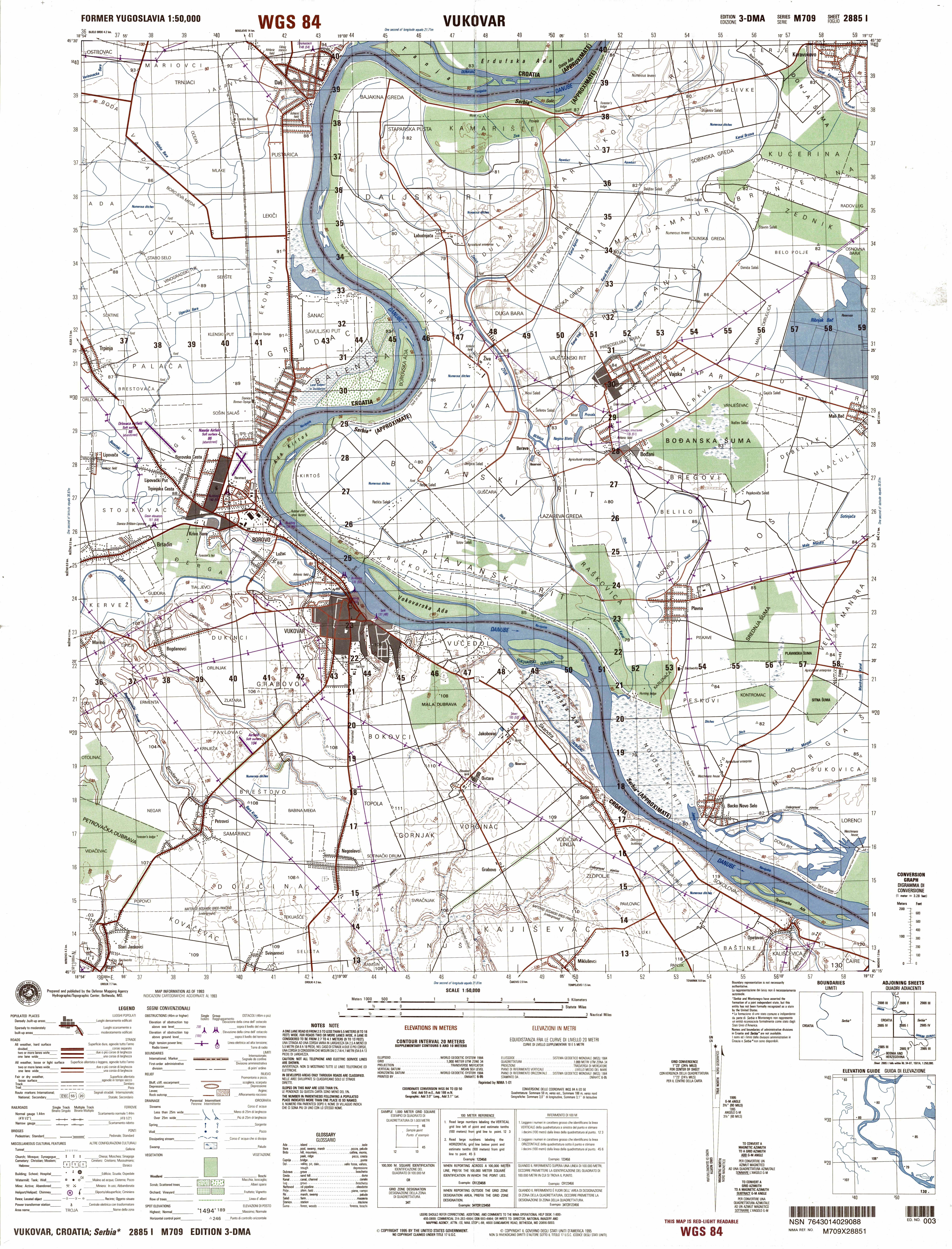 Vukovar, Croatia; Serbia, Sheet 2885 I, 1:50,000